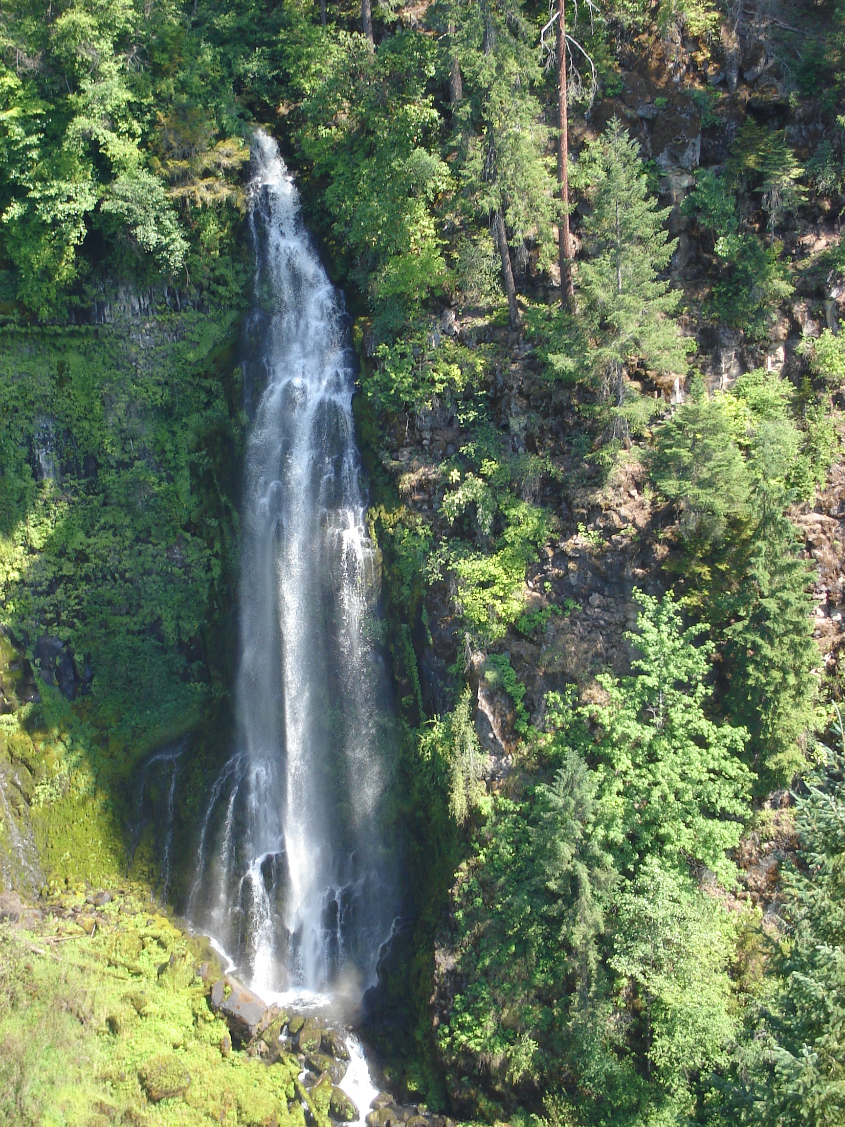 Barr Creek Falls in the Prospect State Scenic Viewpoint in Oregon